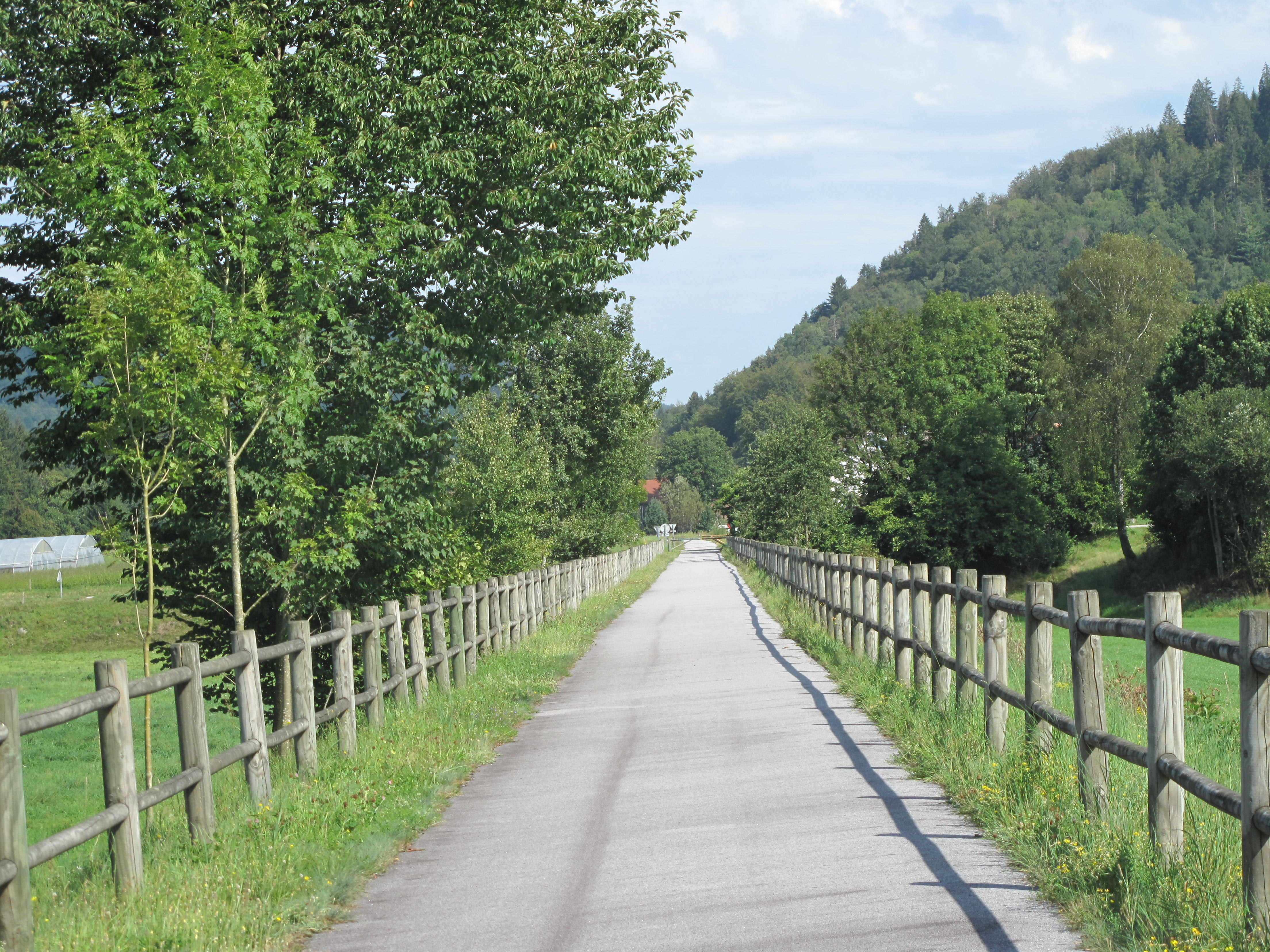 The bicycle trail la voie verte between Bussang and Rupt-sur-Moselle (Vosges, France).